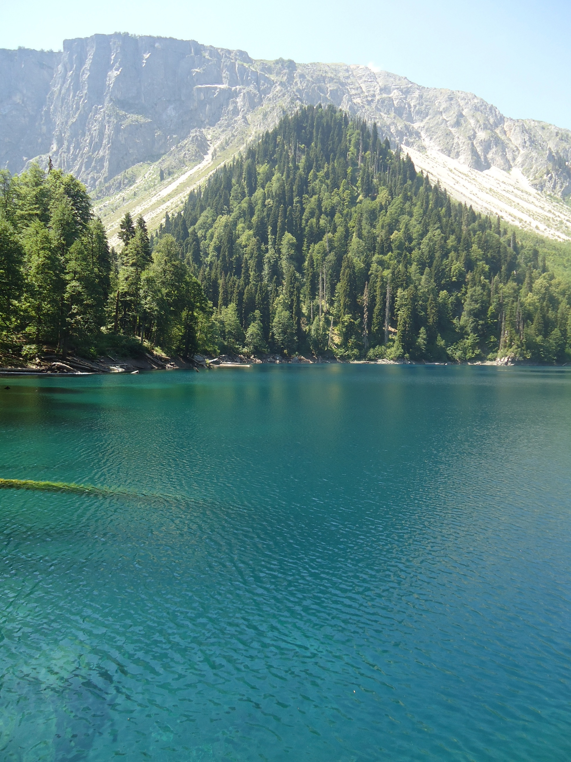 Lake Small Ritsa in Abkhazia